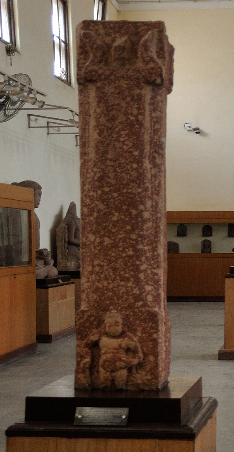 Pillar in the name Chandragupa II in the year 61 following the Gupta era